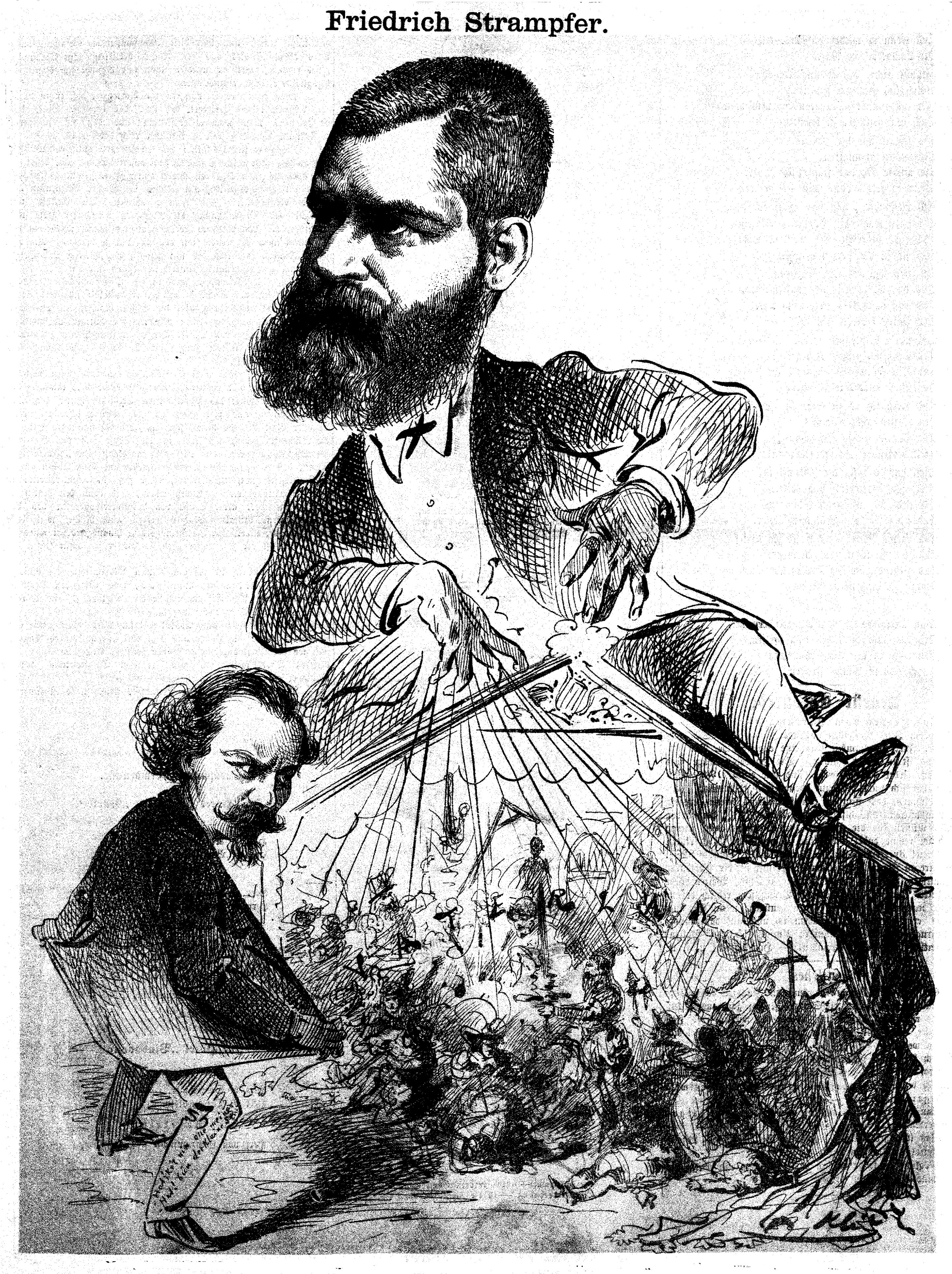 Cartoon of Friedrich Strampfer (1823-1890) and Maximilian Steiner (1839-1880), two Austrian theater managers and actors.